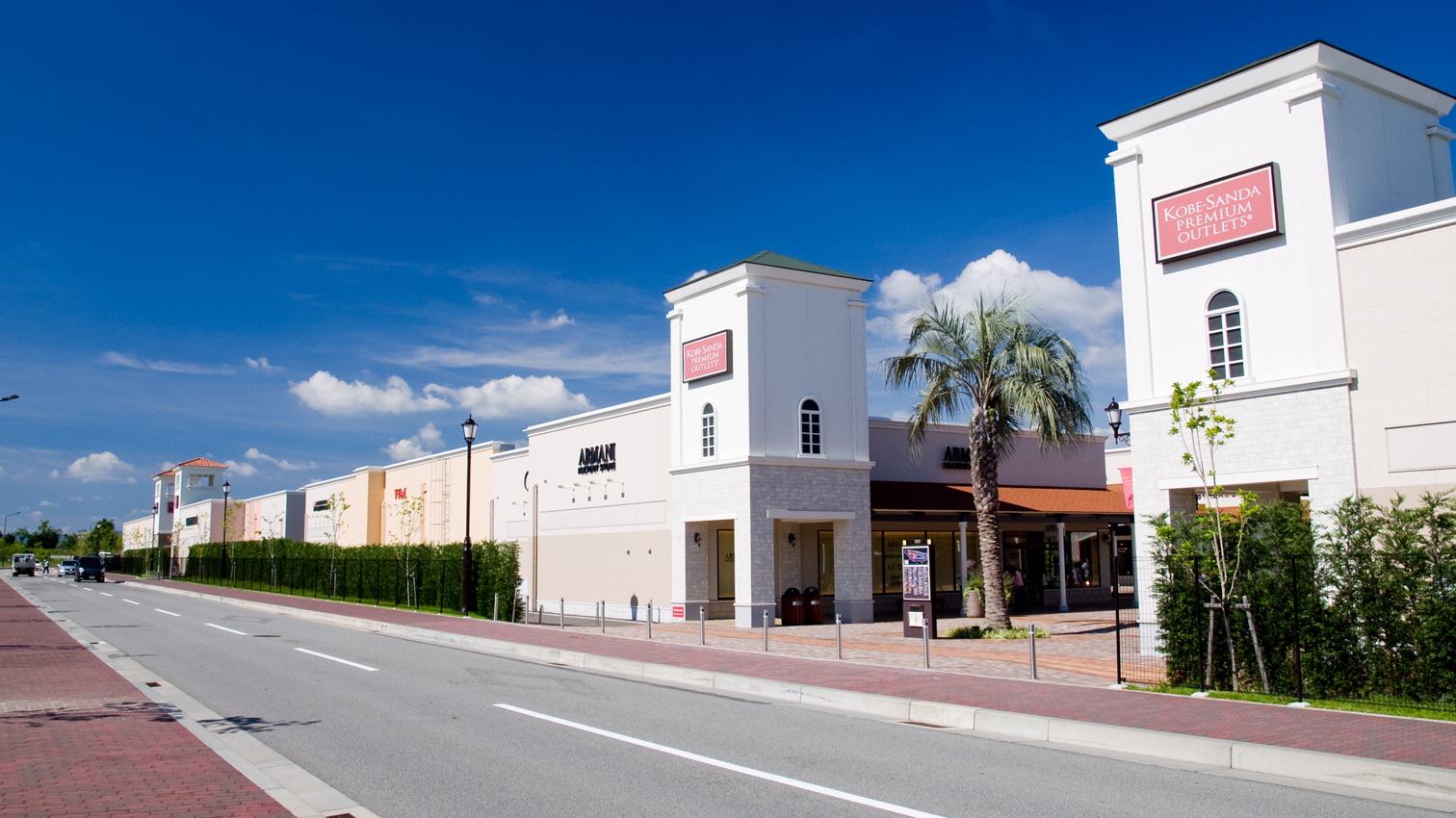 Kobe-Sanda Premium Outlets in Kobe, Hyogo Prefecture, Japan.